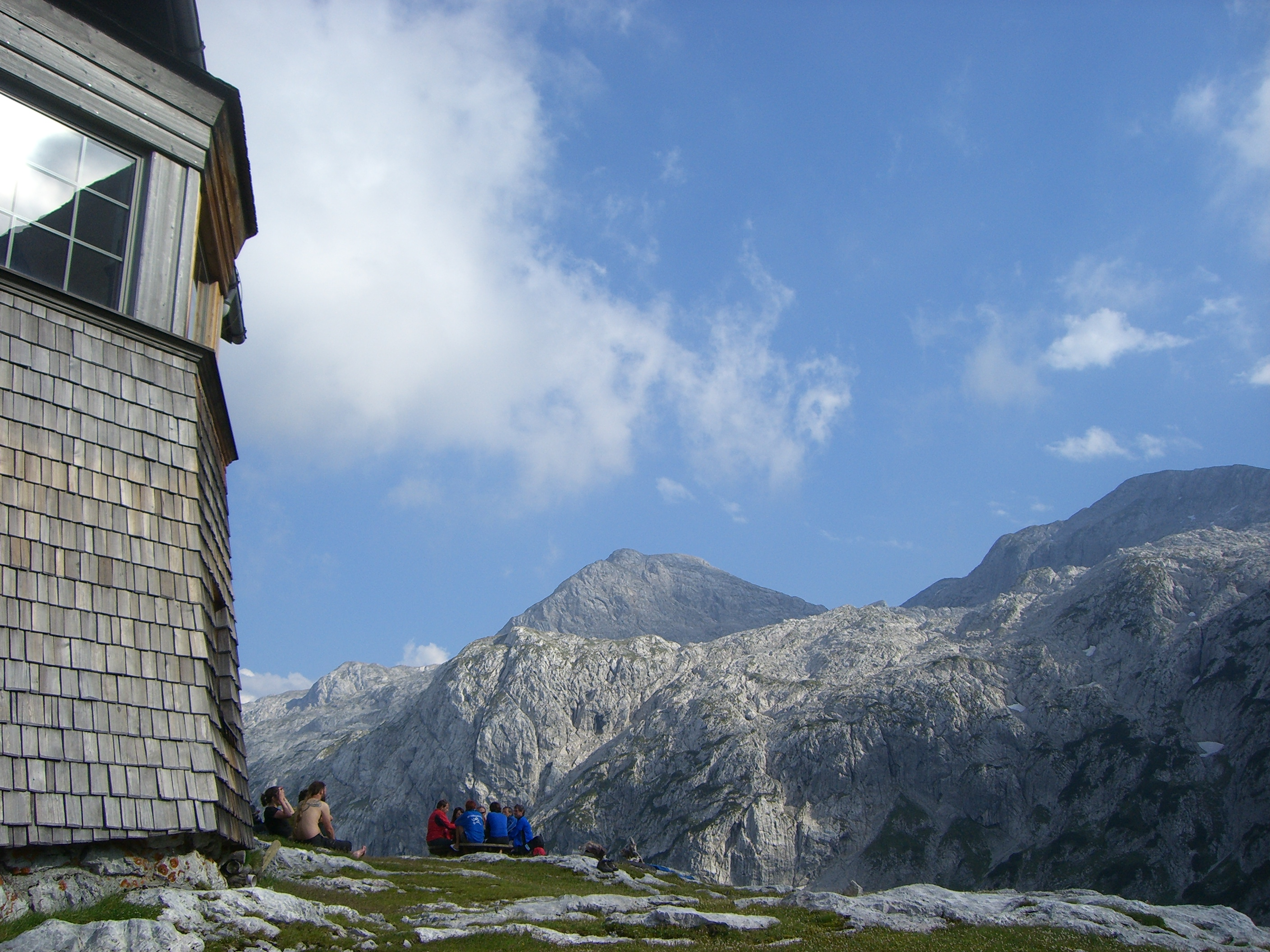 The Leopold-Happisch-Haus